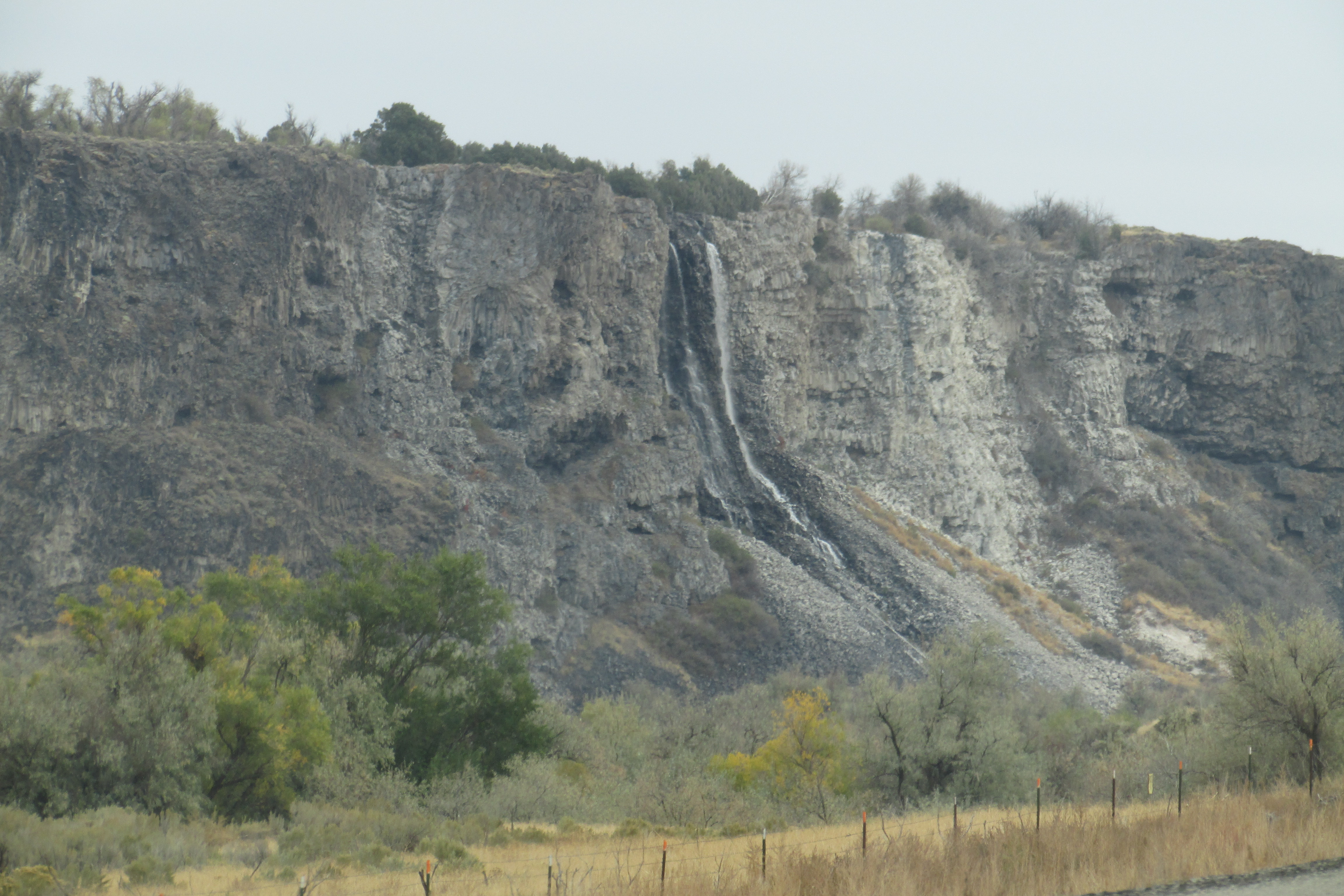 Ritter Island S.P. a unit of Thousand Springs State Park, Hagerman, Idaho.